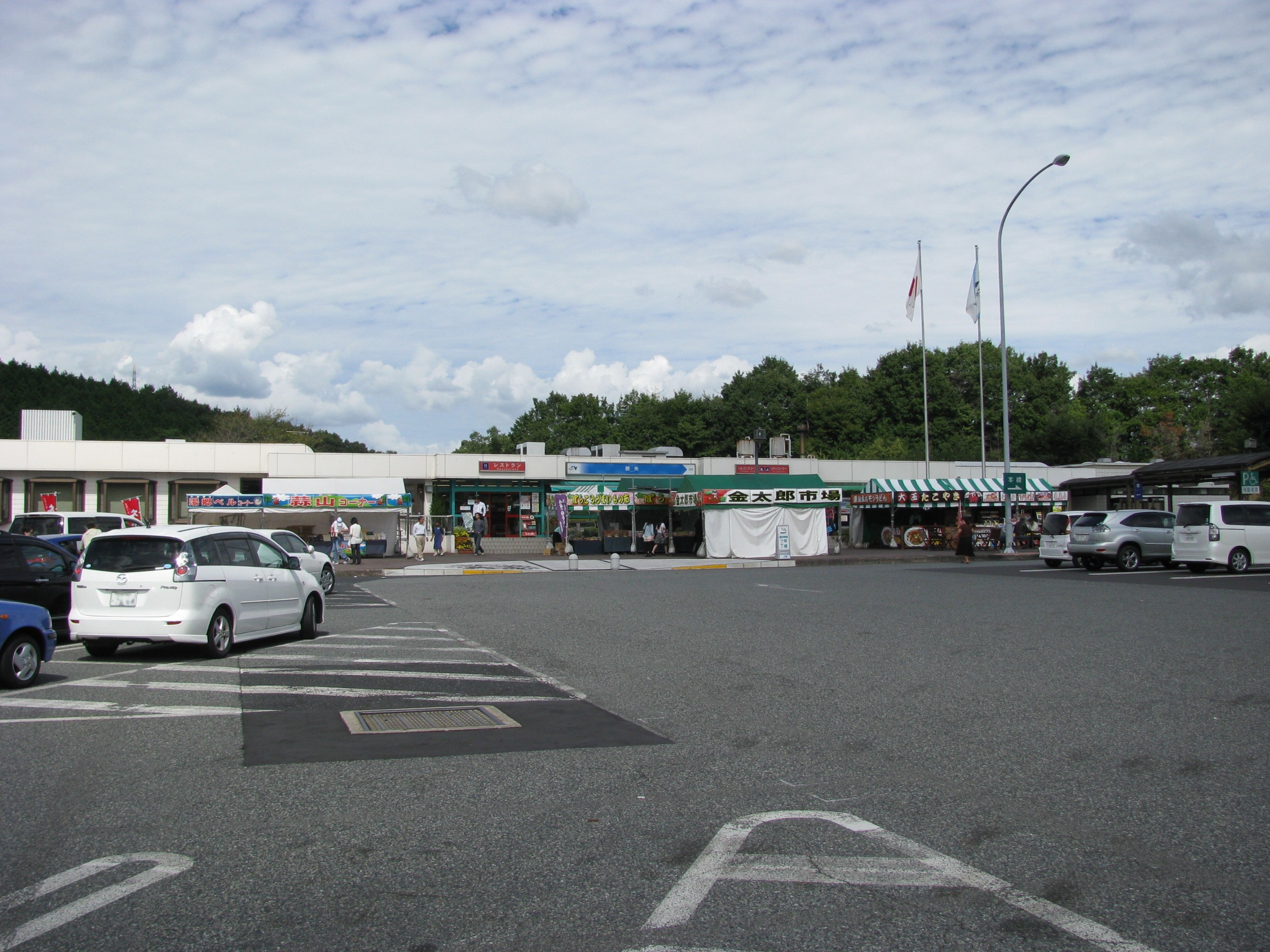 The Shōō service area of Chūgoku Expressway. This place is Shōō, Katsuta District, Okayama, Japan.